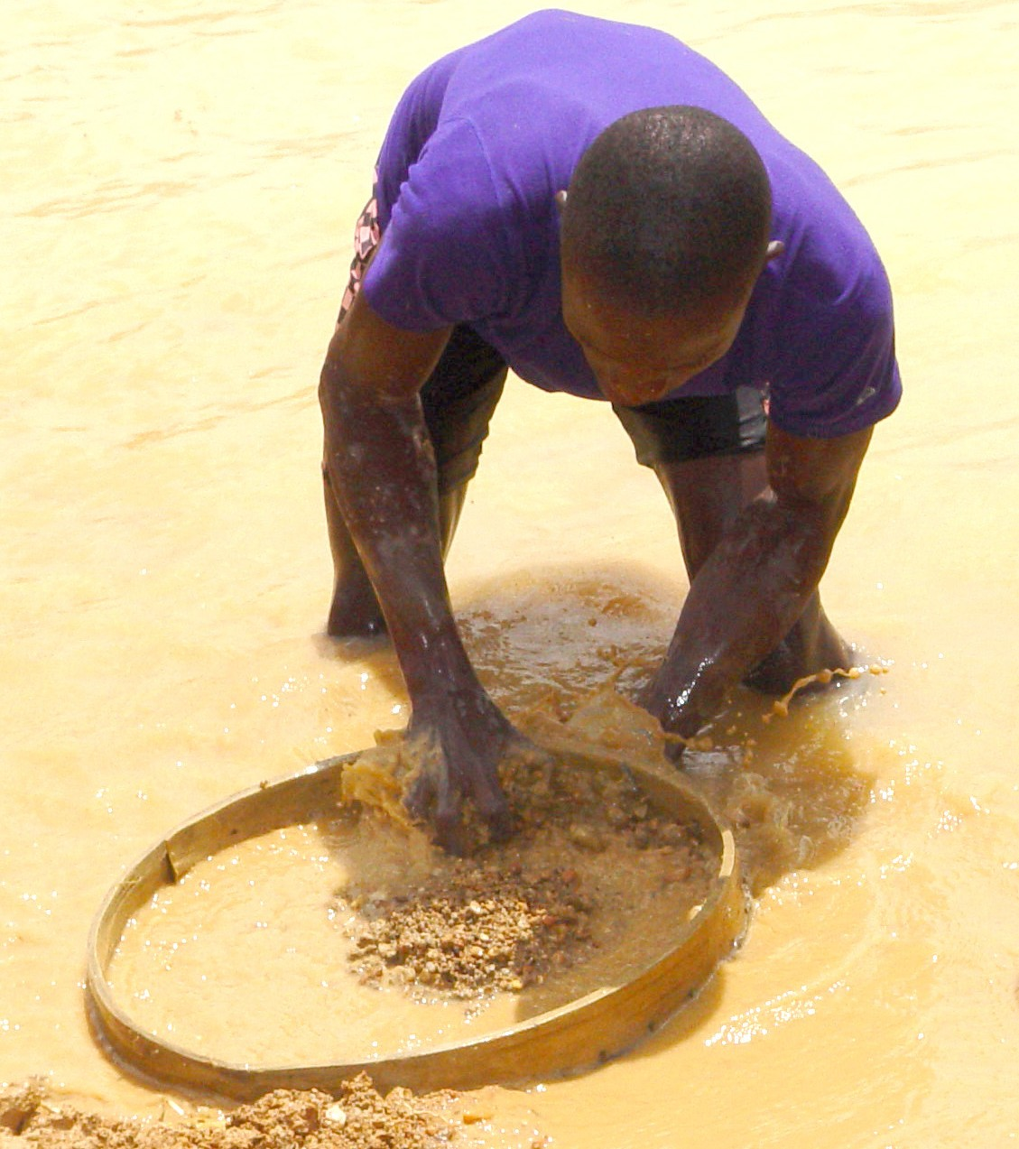 "This miner from Sierra Leone’s Kono district has benefited from the Office of Conflict Management and Mitigation’s (CMM) toolkits. These toolkits produced by CMM highlight lessons learned and best practices from around the world, such as those from Sierra Leone’s Peace Diamond Alliance. The alliance improved distribution of benefits from the diamond mining industry and restricted access to markets for people selling illegal "conflict diamonds" to fuel ongoing instability."